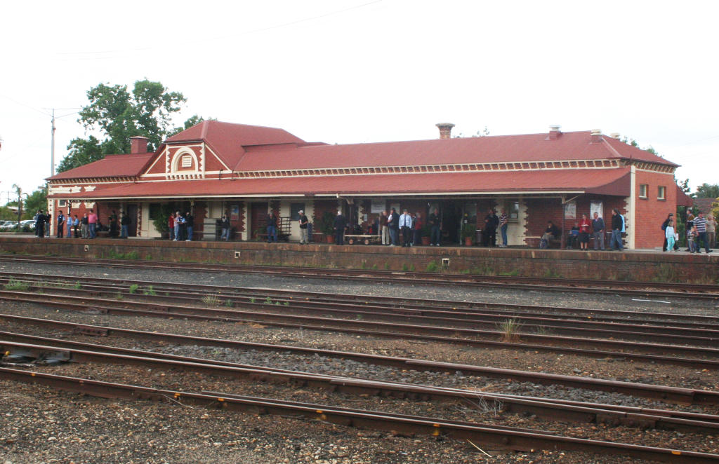 Benalla railway station, Victoria station building, yard in foreground